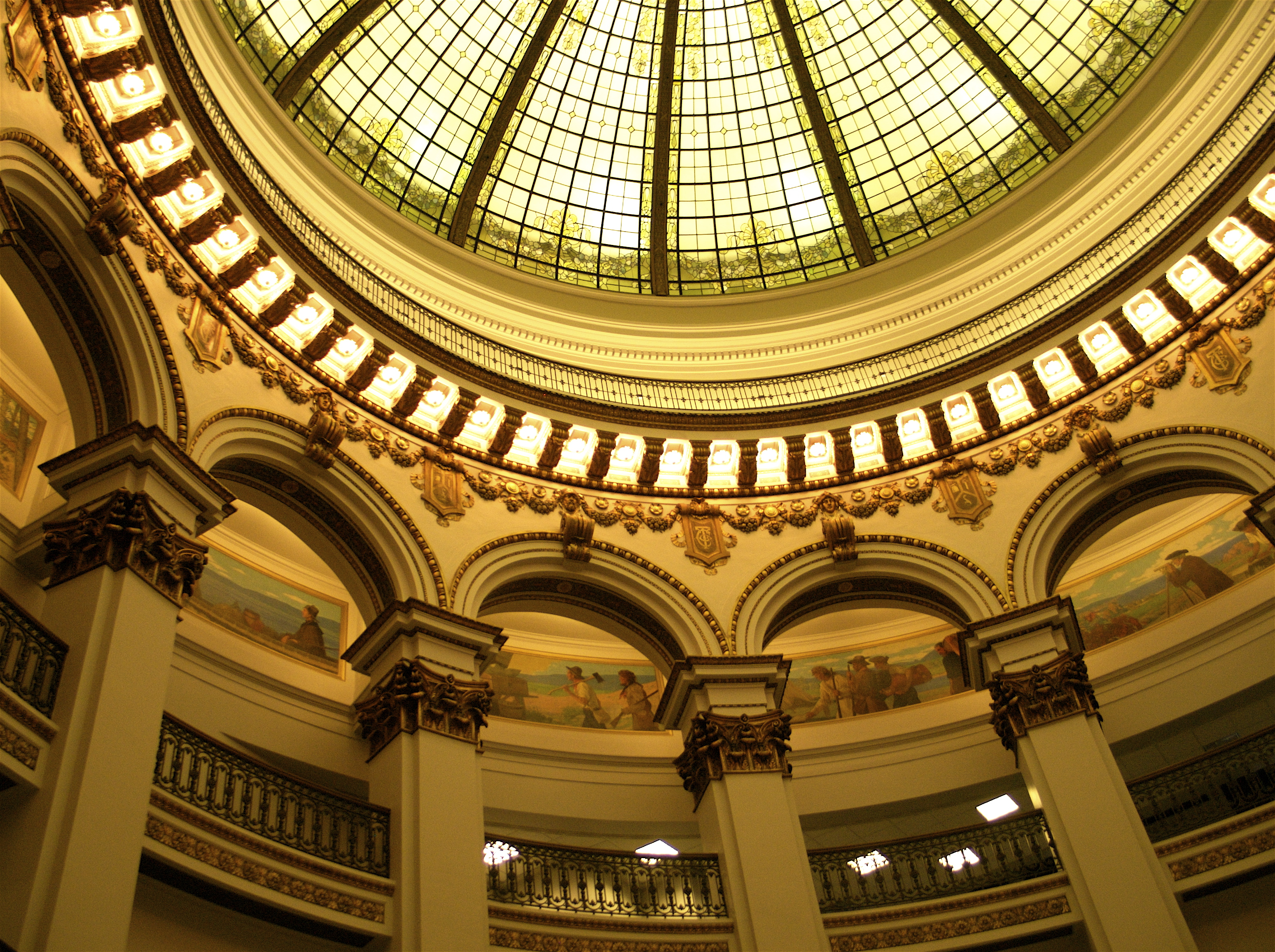 Cleveland Trust Rotunda, Cleveland, Ohio. Murals by Francis Davis Millet.Cleveland Art Deco